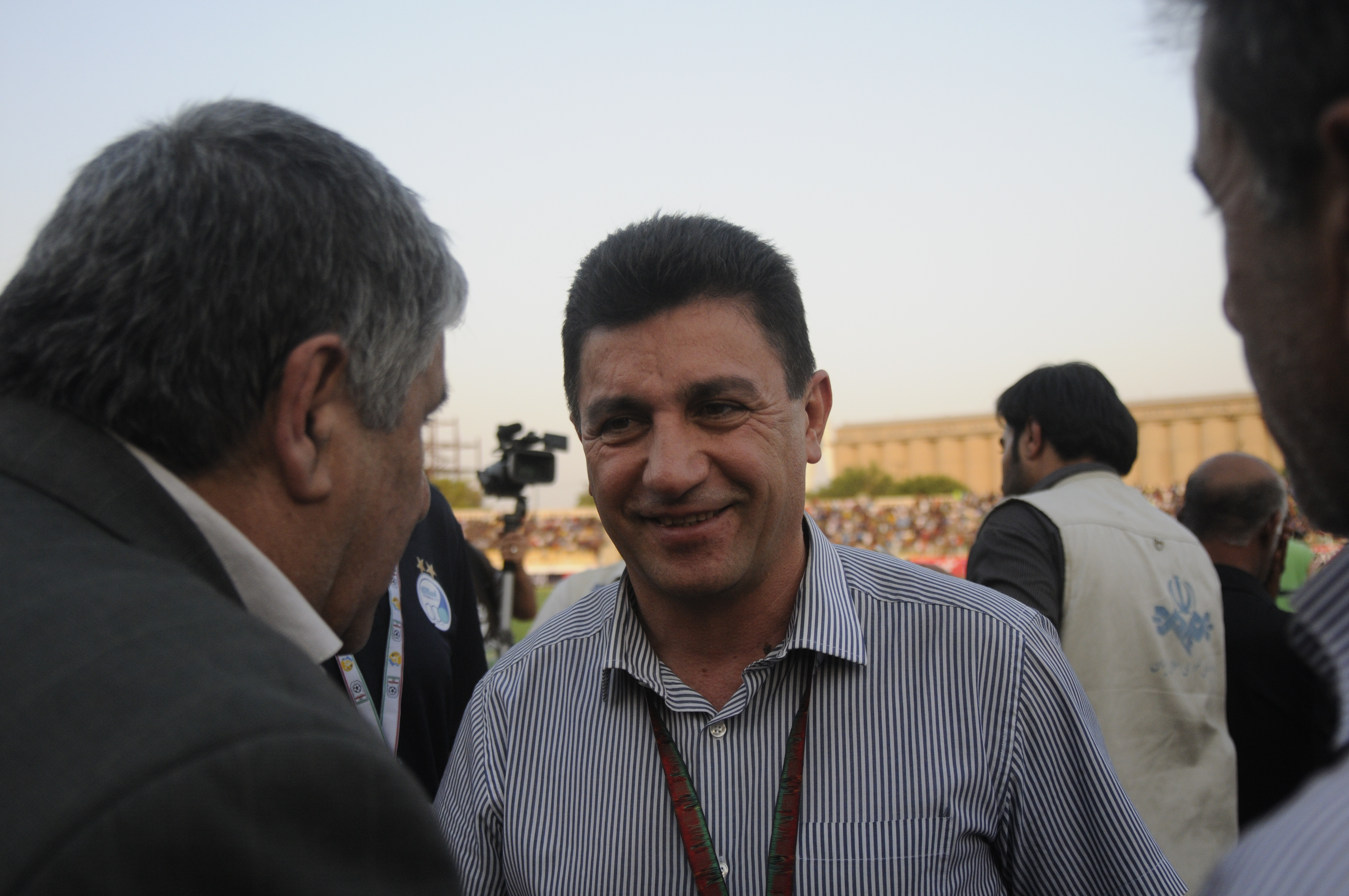 Amir Ghaleh Noee